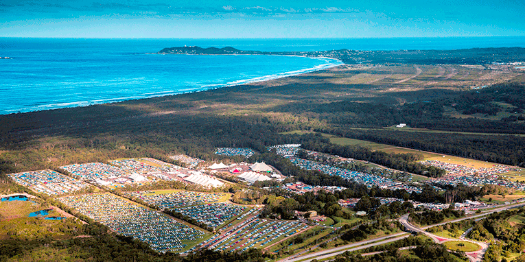 Bluesfest festival site from the air.